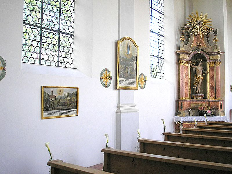 Pilgrimage church Maria Aich (Peissenberg, Landkreis Weilheim-Schongau, Upper Bavaria, Germany).The northern side of the nave